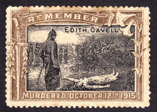 Remember Edith Cavell propaganda stamp.